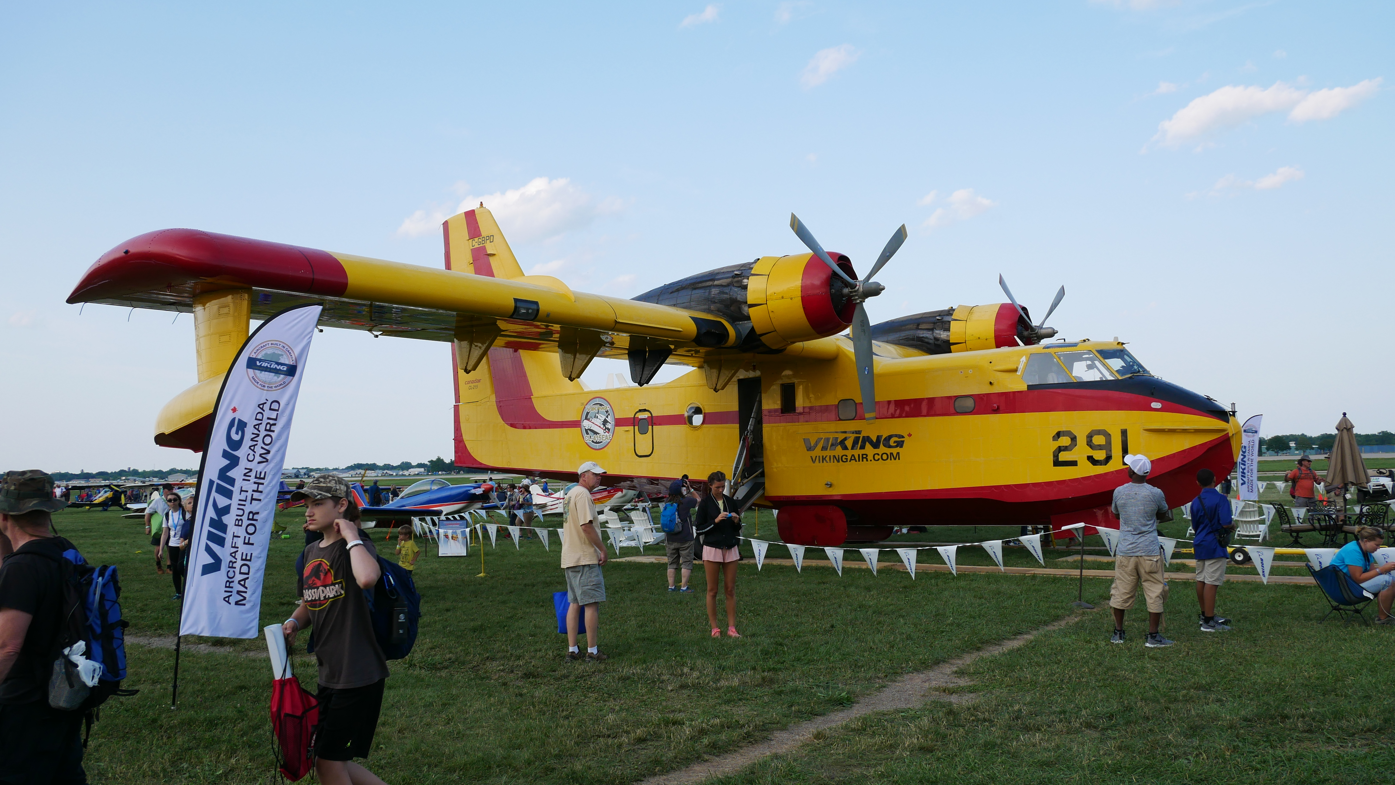 Canadair CL-215 EAA AirVenture Oshkosh 2019